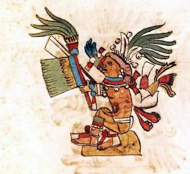 Cinteotl — an Aztec god.